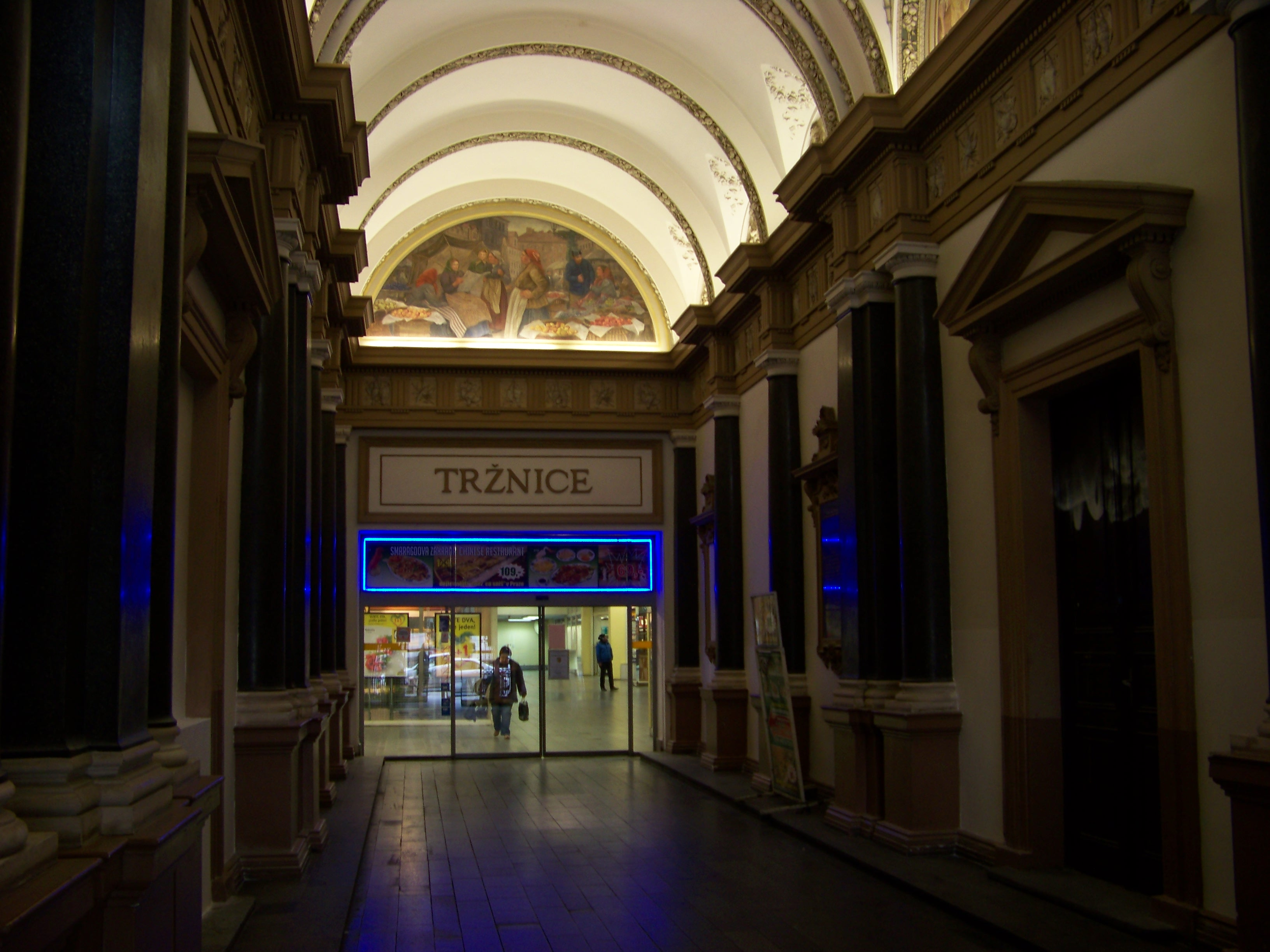 Prague-Old Town, Czech Republic. Rytířská 406/10, Old Town Market Hall.